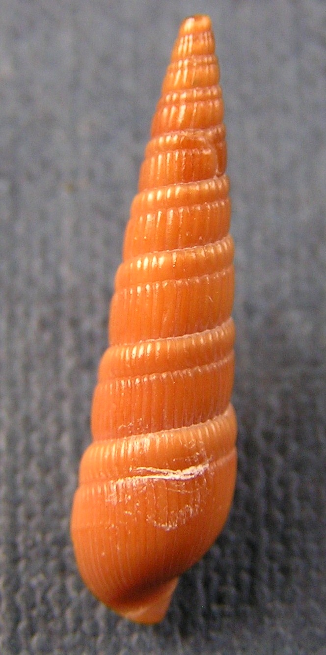 Duplicaria kieneri Deshayes, 1859, an auger snail in the family Terebridae; South Australia